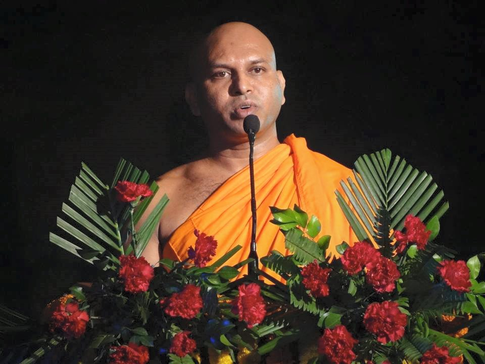 General Secretary of the Maha Bodhi Society of India Ven P Seewalee Thero delivering speech at Sarnath